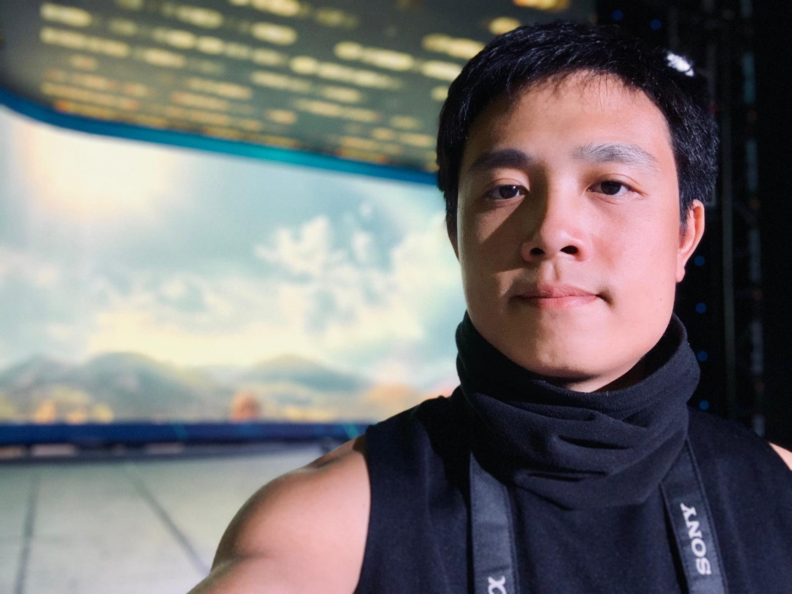 image of Peter Wong